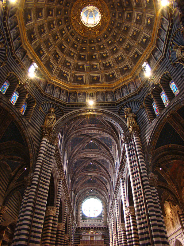 Duomo, Siena, Tuscany, Italy. Nave and cupola.